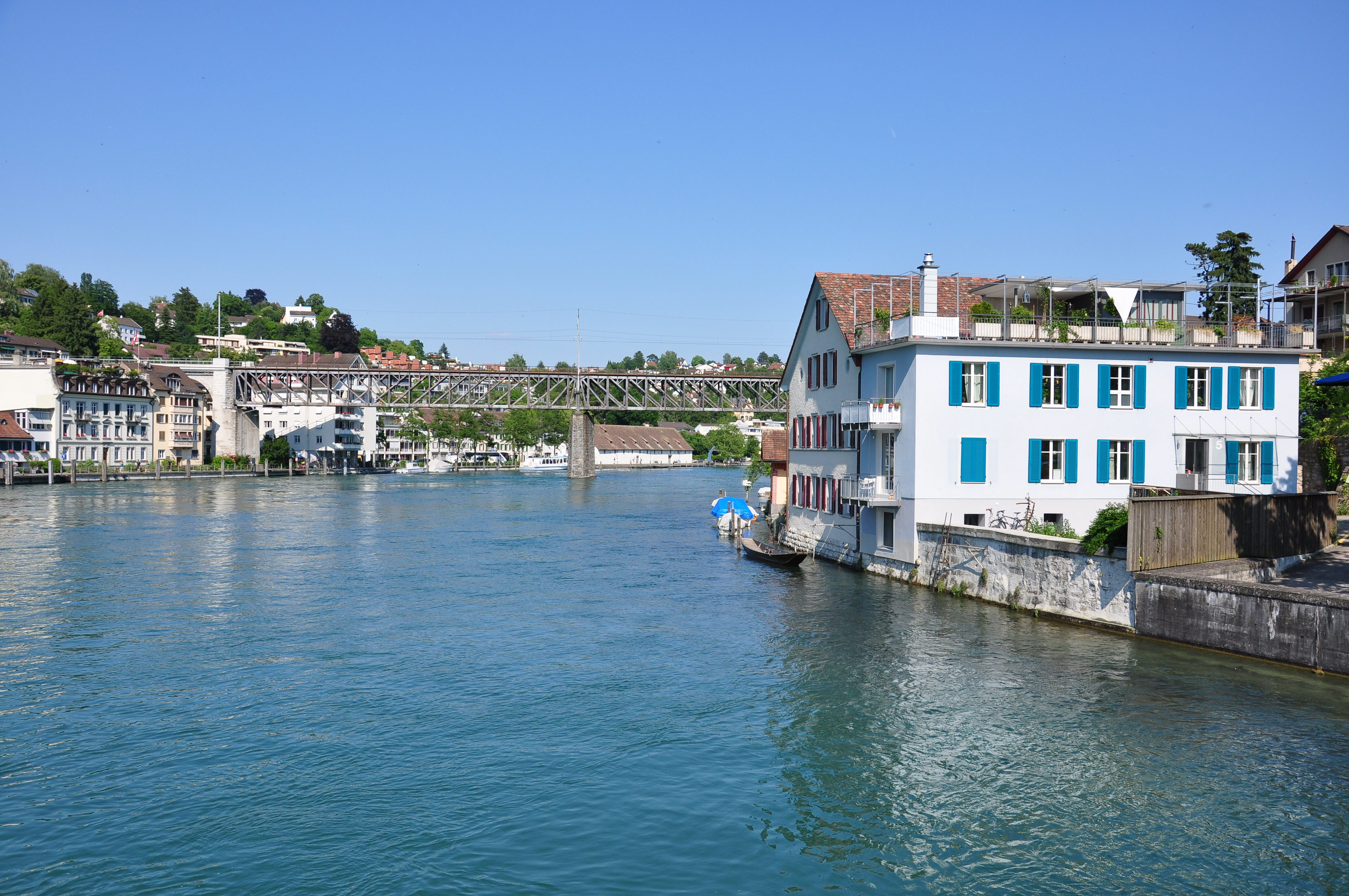 Feuerthalen (to the right) and Schaffhausen (Switzerland)